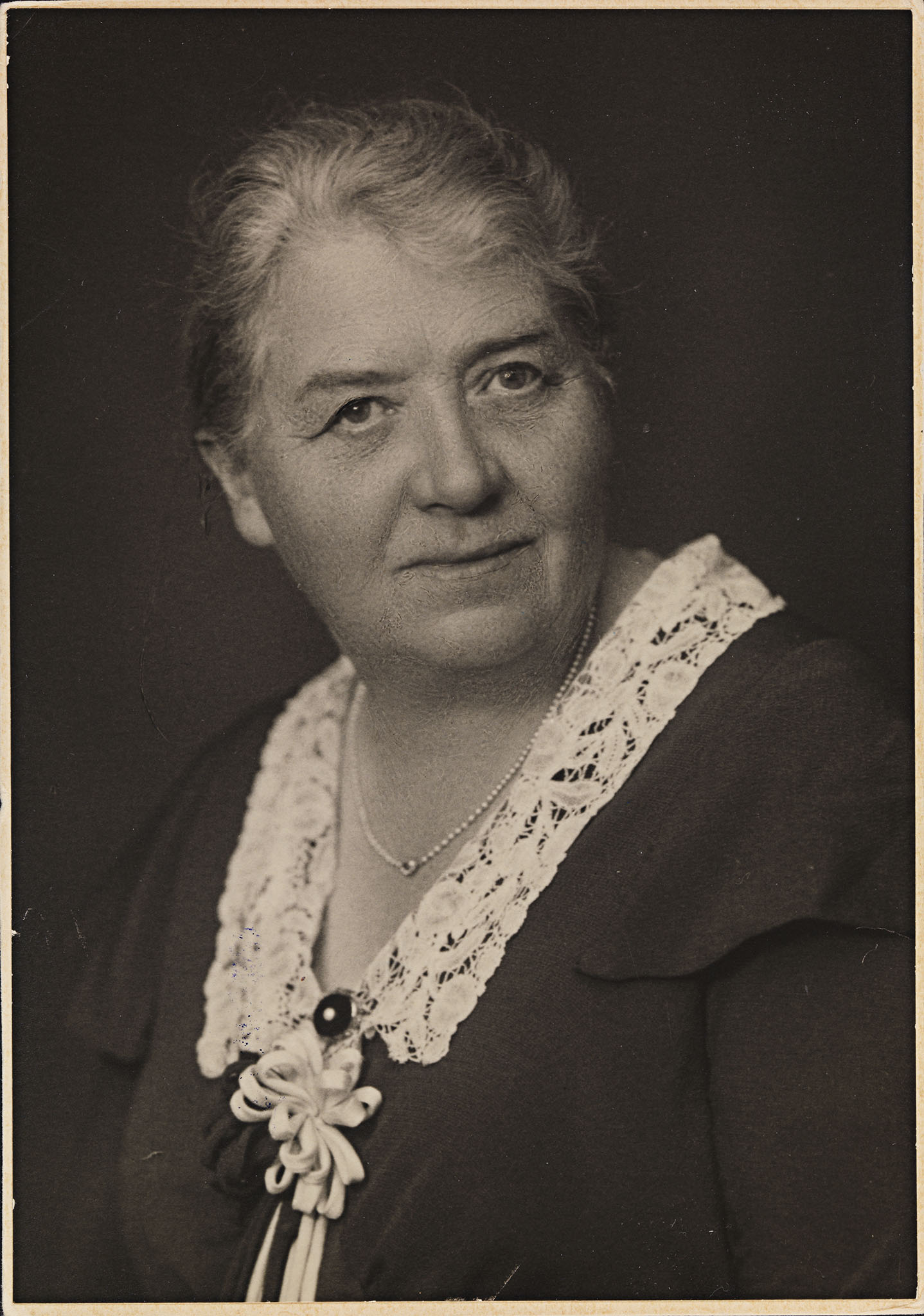 Tittel / Title: Portrett av Karen Grude Koht (1871-1960) Beskrivelse / Description: Karen Grude Koht var pedagog, essayist og kvinnesaksforkjemper. Dato / Date: ukjent / unknown Fotograf / Photographer: ukjent / unknown Eier / Owner Institution: Nasjonalbiblioteket / National Library of Norway Lenke / Link: Bildesignatur / Image Number: bldsa_SKARD0353